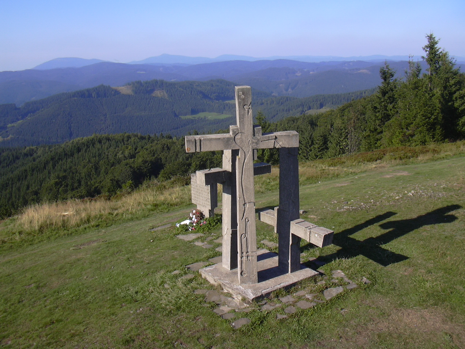 Three crosses on Stratenec on the ridge of Javorníky commemorating the death of three unknown Czech and Slovak soldiers shot here in May 1945.